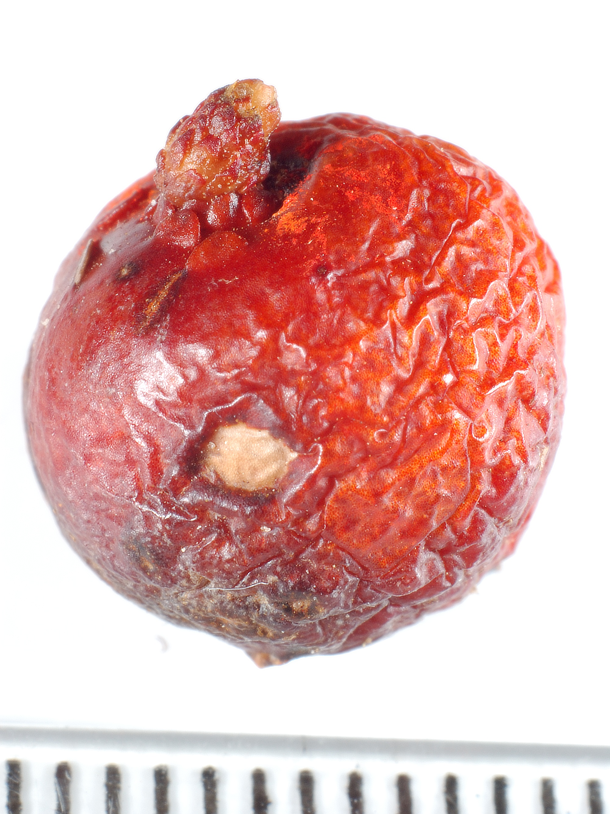 Drosera whittakeri